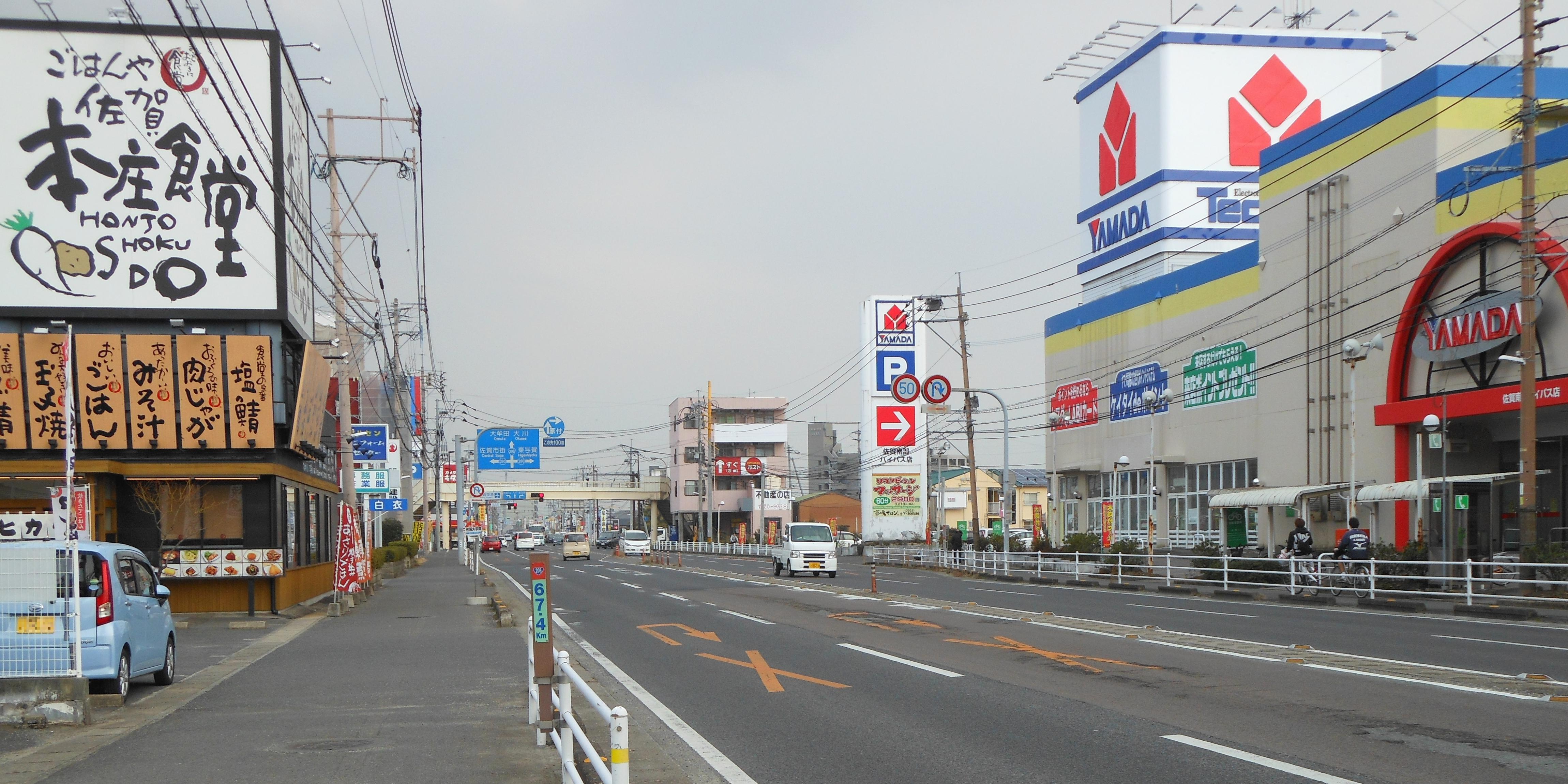 "Nambu bypass" Street in Honjō, Saga City. It is Japan National Route 208.